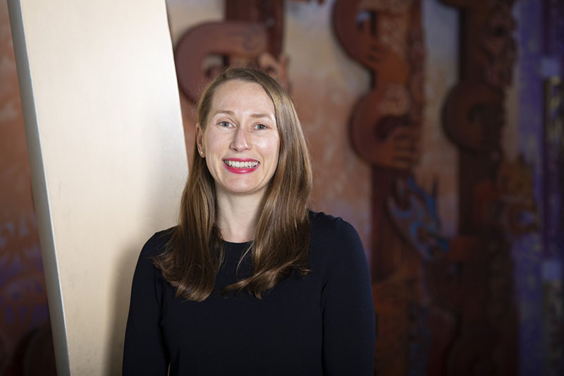 Depicts Courtney Johnston, CEO of Te Papa